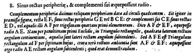 A 1604 use of "quod erat demonstrandum". Latin text: 8. Sinus rectus peripheriae, et complementi sui aequepossunt radio. Complementum peripheriae dicimus reliquam datae ad circuli quadrantem. Sit igitur in / praemissa figura, recta EF, sinus rectus peripheriae GE vel BCE: et complementi sui CE sinus rectus / ED, vel aequalis illi AF per trigesimam quartam primi elementorum. Dico AF et EF, aequeposse / radio AE. Nam per penultimam primi Euclidis, in Triangulis rectangulis, quadrata laterum rectum / angulum continentium, aequalia sunt lateri rectum angulum subtendenti. Sed AFE est Triangulum / rectangulum ad F per septimam hujus, crura verò rectum ambientia sunt AF et EF: aequepossunt / ergo radio AE rectum angulum subtendenti; quod erat demonstrandum.